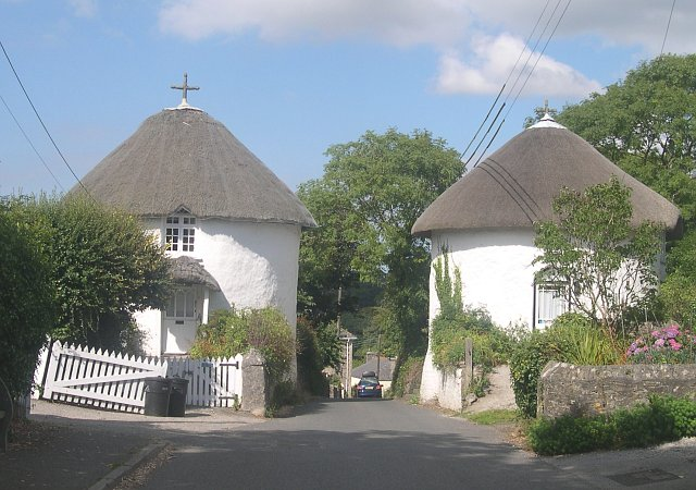 Veryan Round Houses